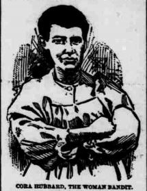 Etching of 19th century bank robber Cora Hubbard. Published on page 8 of the September 11, 1897 issue of the Rock Island (Illinois) Argus.